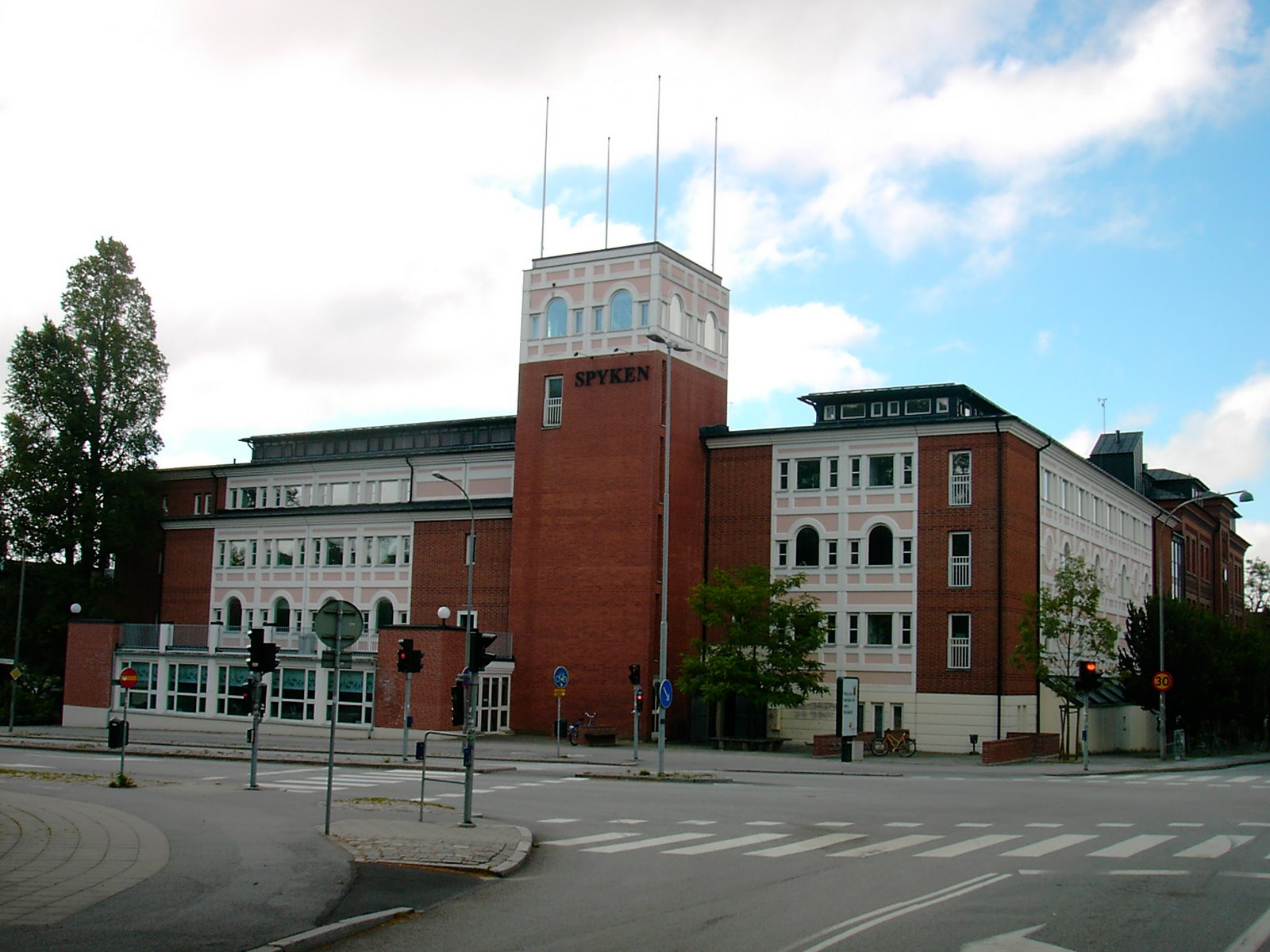 Intersection outside of the school